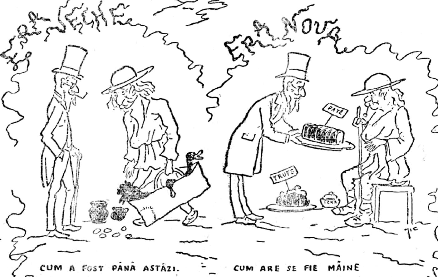 Era Nouă ("The New Era"), part of a cartoon published in the Romanian newspaper Epoca. Reference is made to the political program of Junimea society, a liberal-conservative society which, in 1888, formed the Romanian government. Although not the Prime Minister, Junimea leader Petre P. Carp coined the term Era Nouă, promising a fair deal to the dissatisfied classes, mid-way between sweeping reforms and staunch conservatism. Epoca represented the classical Conservative group, and was tongue-in-cheek about Carp's ideas. In these two panels, Jiquidi shows Era Veche ("The Old Era") as a time in which the peasant subservience to the landowner, and paying his tribute in foodstuffs. In the utopian "New Era", the landowner bows before the peasant, presenting him with servings of pâté and truffles.